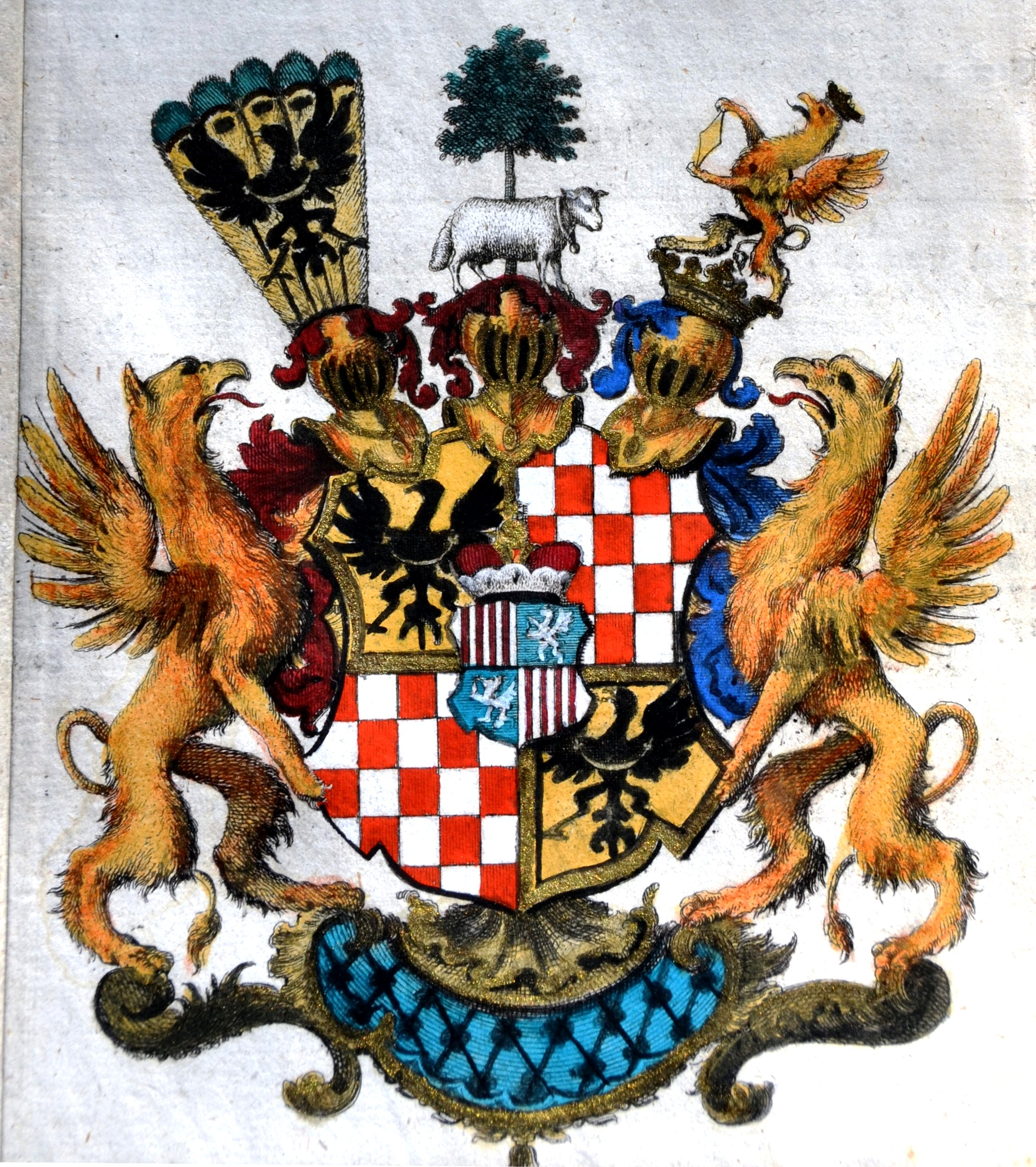 Coat of arms of Count Philipp Gotthard Schaffgotsch, Bishop of Breslau